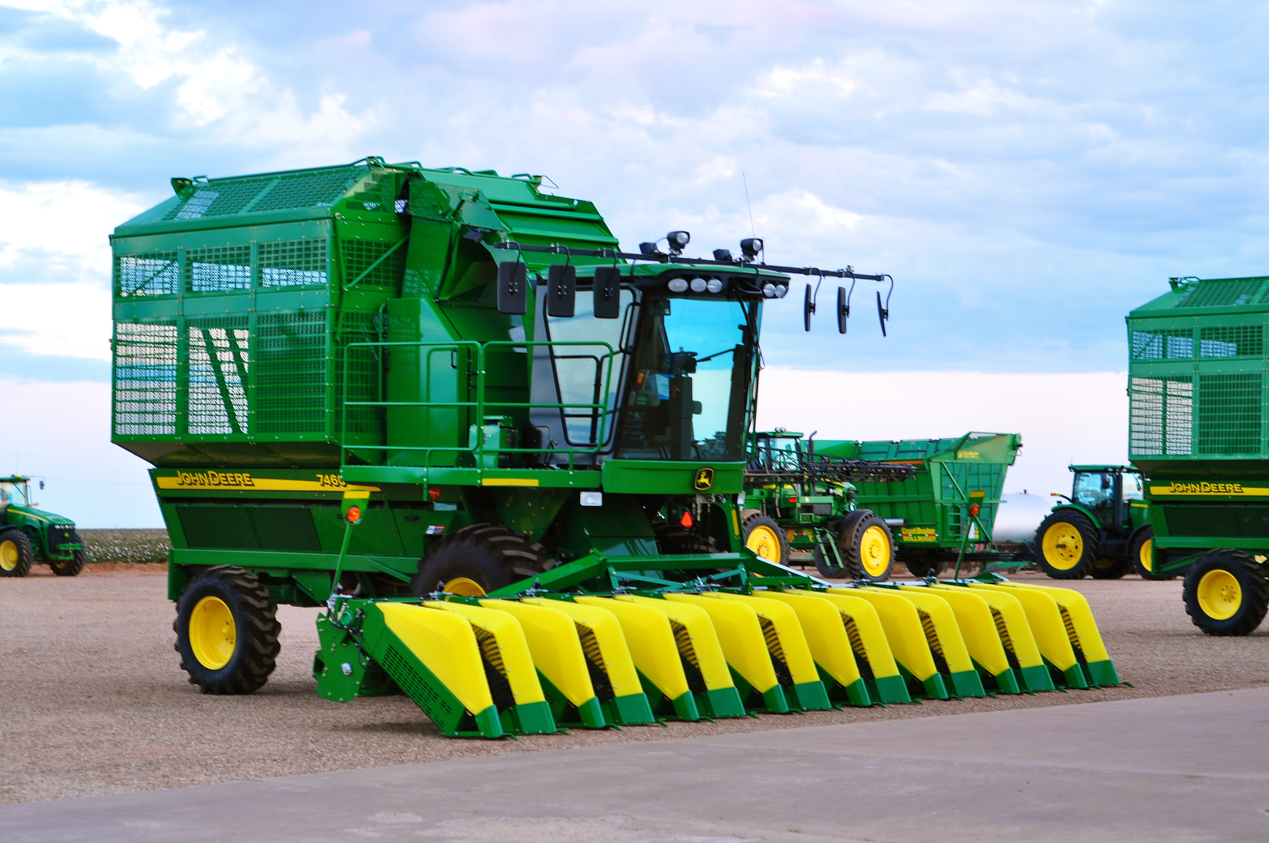 A John Deere 7460 cotton stripper and other machinery (including John Deere tractors, a John Deere sprayer, and a CrustBuster boll buggy)